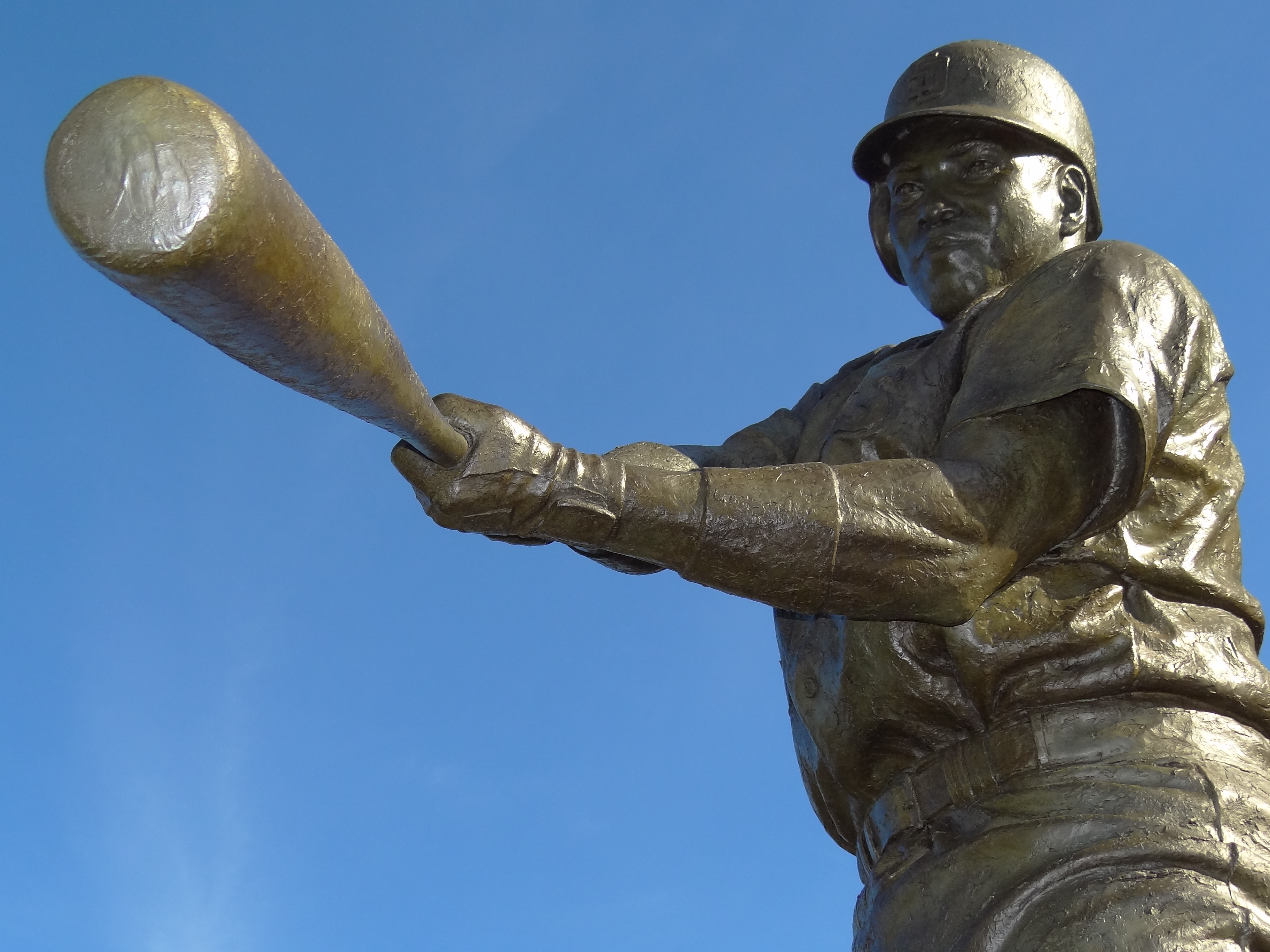 Statue of Hall of Famer Tony Gwynn - Outside Petco Field - San Diego, CA - USA - 01